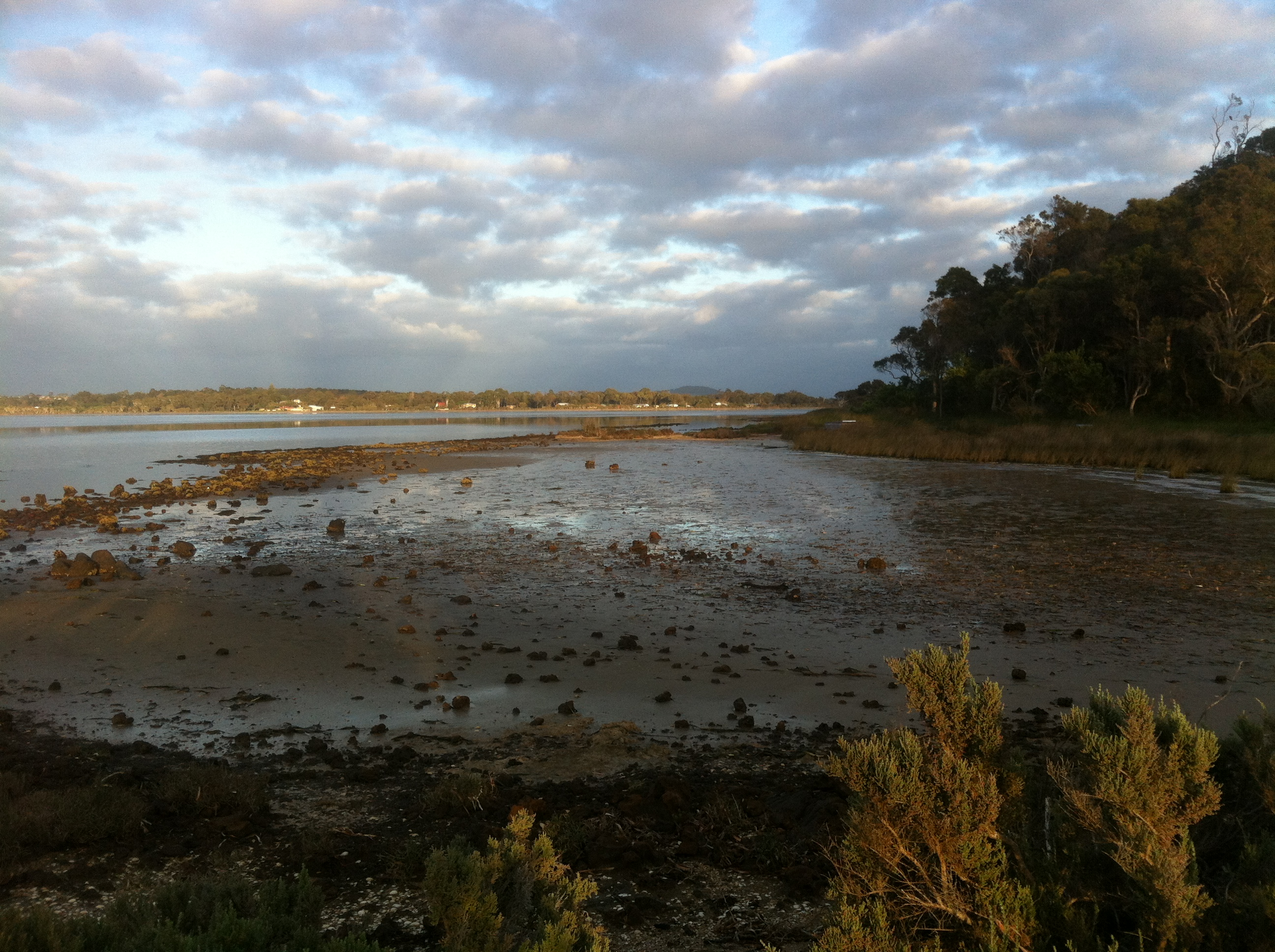 Albany Fish Trap at low tide